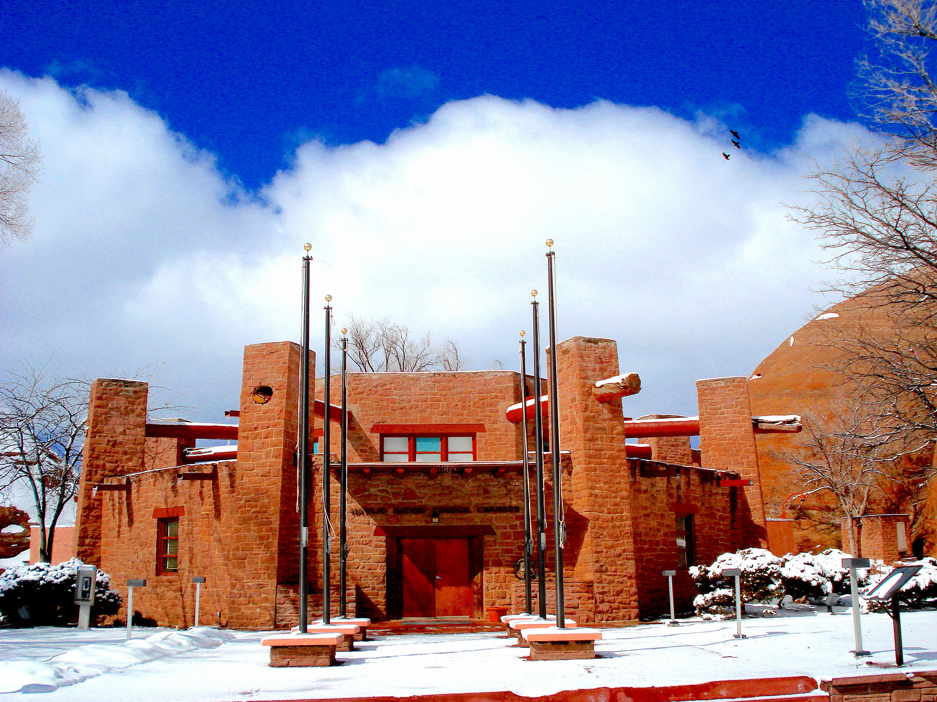 Navajo Nation Council Chambers, Window Rock, AZ Diné bizaad: Naabeehó biWááshindoon: Béésh bąąh dah siʼání yaʼanájáaʼgi bikin éélkid. Tségháhoodzáníidi bikin naazniil.